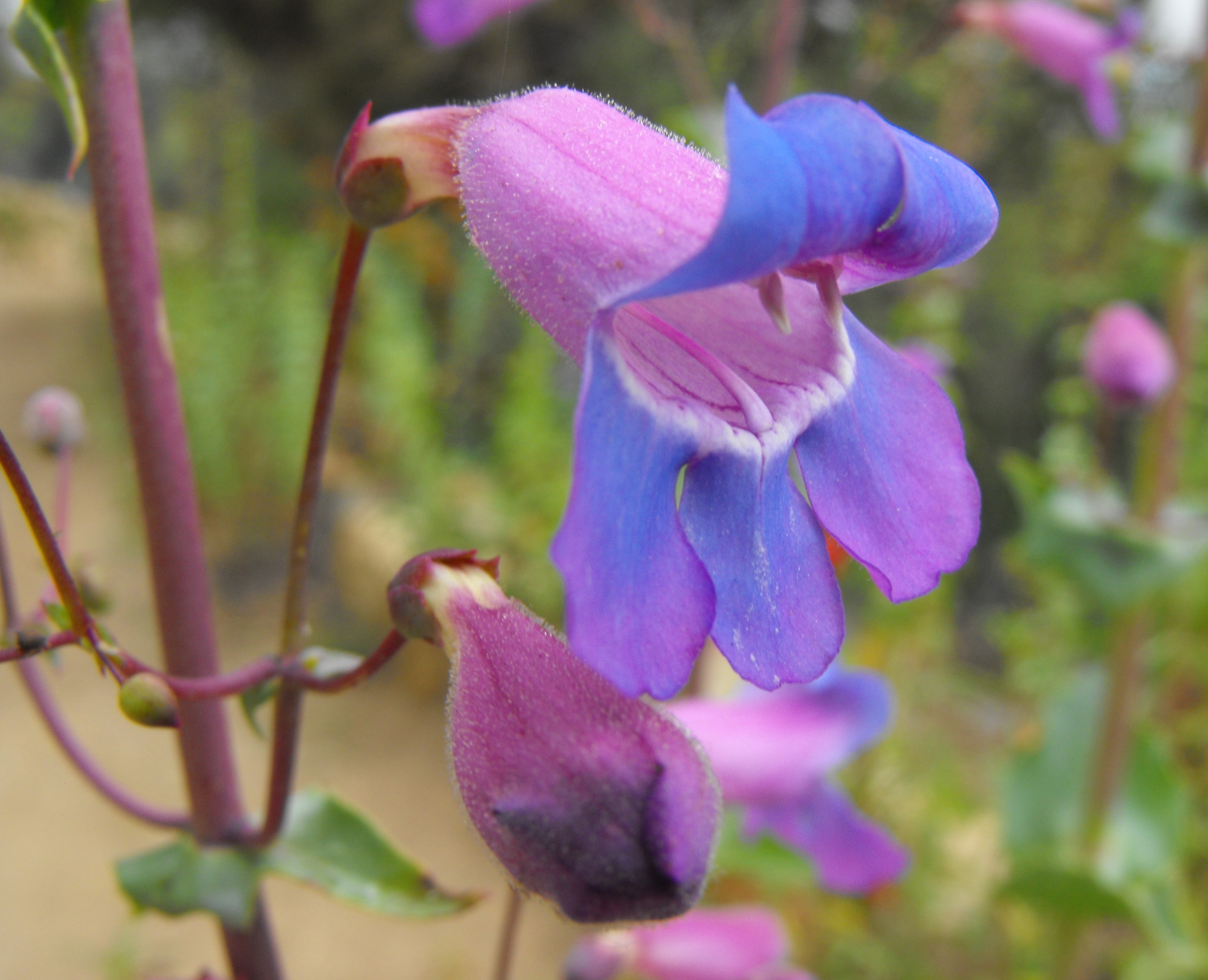 Penstemon spectabilis at the Wild Animal Park, Escondido, California, USA. It was growing wild near one of the gardens.